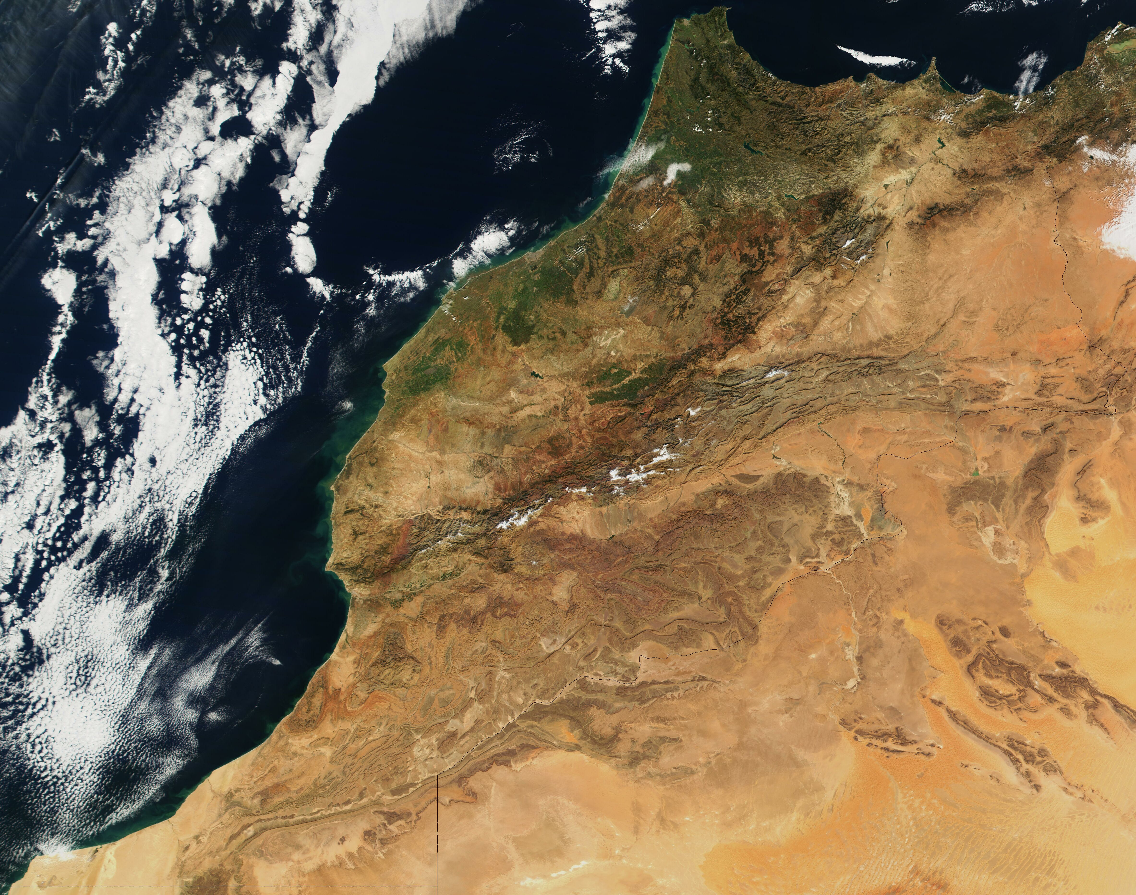 Satellite image of Morocco in January 2002.